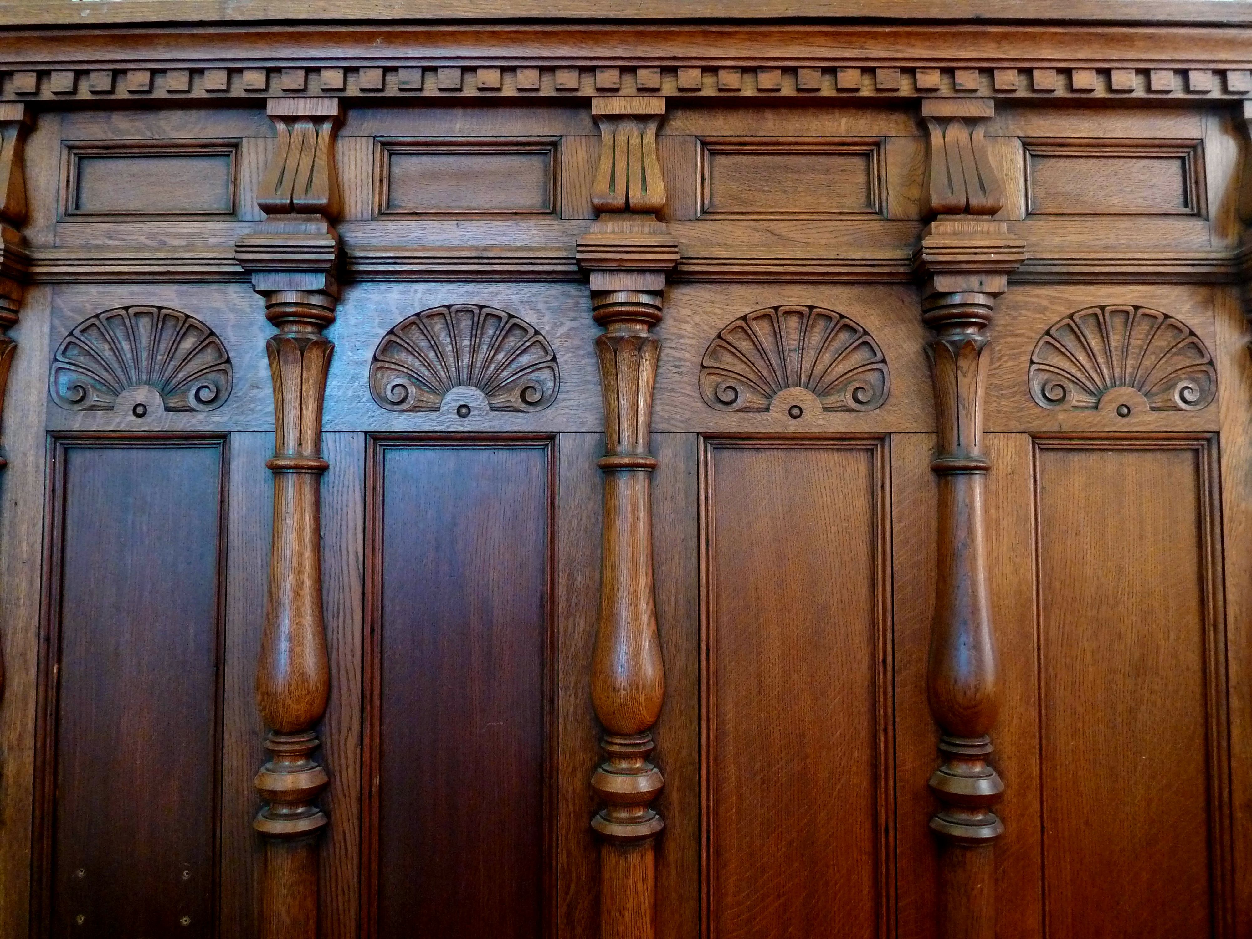 Interior of Spring Hall, now known as Spring Hall Mansions, off Huddersfield Road, Halifax, West Yorkshire. Hand-carved oak panelling designed and commissioned by the architect, in the first-floor music room. This mansion was a rebuild of a 17th century house, and designed in 1871 by William Swinden Barber for Tom Holdsworth. It is owned by Kirklees Council and it houses Calderdale Register Office. Note: Most of the interior of the building is not accessible to the public. Each interior image by this uploader was taken with kind permission of Council staff.